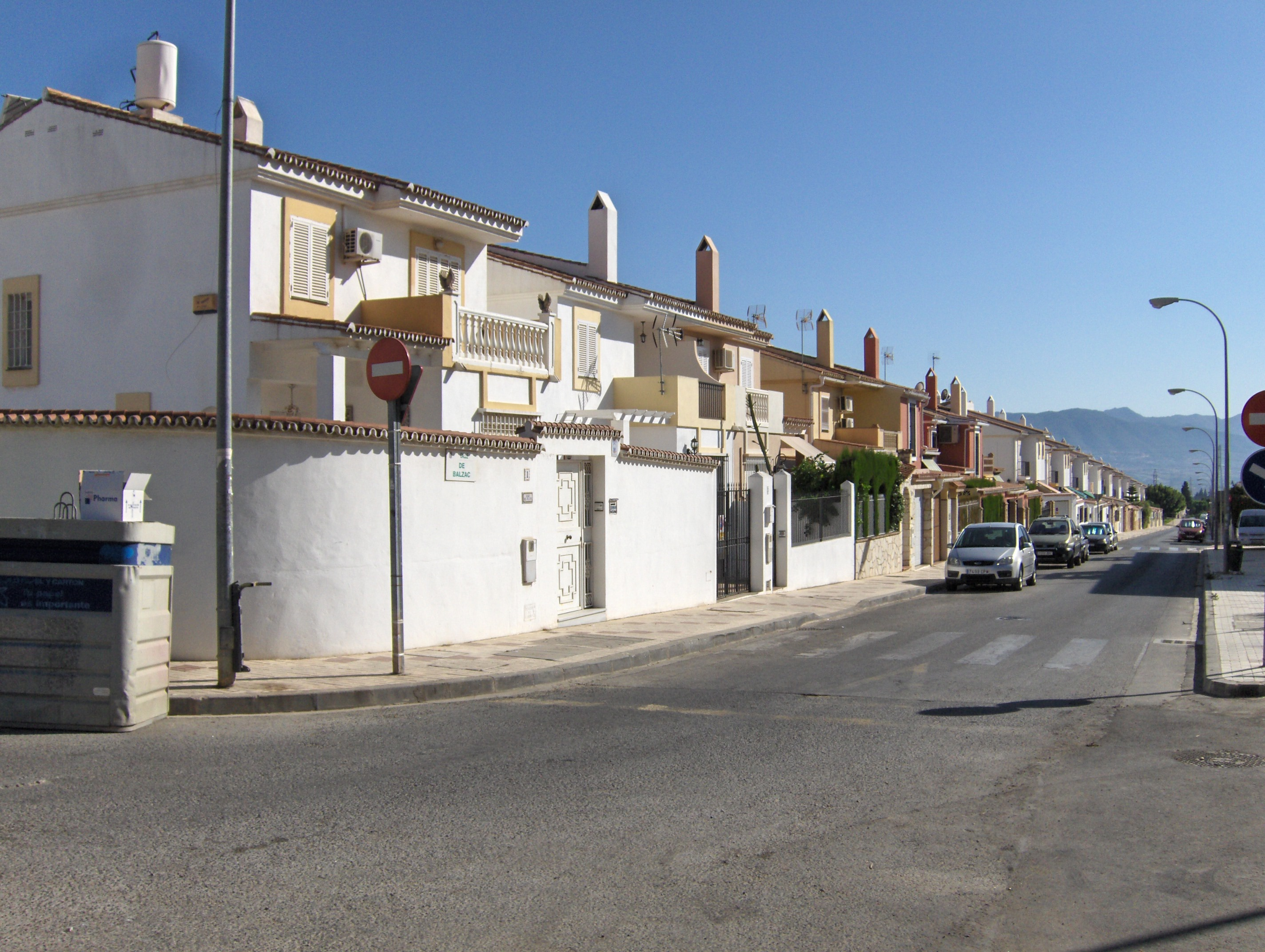 Terrace houses in Puerto de la Torre.